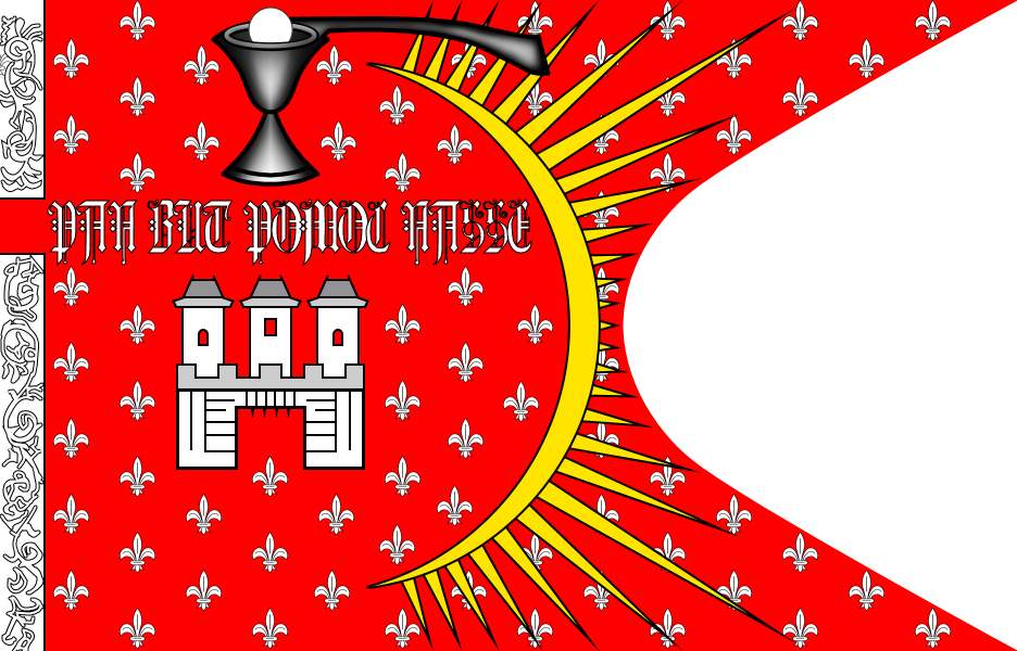 During the Hussite Wars when the City of Prague was attacked by "Crusader" and mercenary forces, the city militia fought bravely under this banner. It was later captured by Swedish troops on their raid in 1649 and eventually placed in the Royal Military Museum in Stockholm; today it is simply called the "Prague Banner." Although this flag still exists, it is in very poor condition. When the Banner was first made and used is open for debate, but earlist evidence indicates that a gonfalon with some municipal charge painted on it was used for Old Town as early as 1419. Eva Turek dates this flag to about 1530 based on the style of characters, painted bordure, and fleurs-de-lis stenciled on it. Since this particular municipal militia flag was used before 1477 and during the Hussite Wars, it is the oldest still preserved municipal flag in Bohemia.